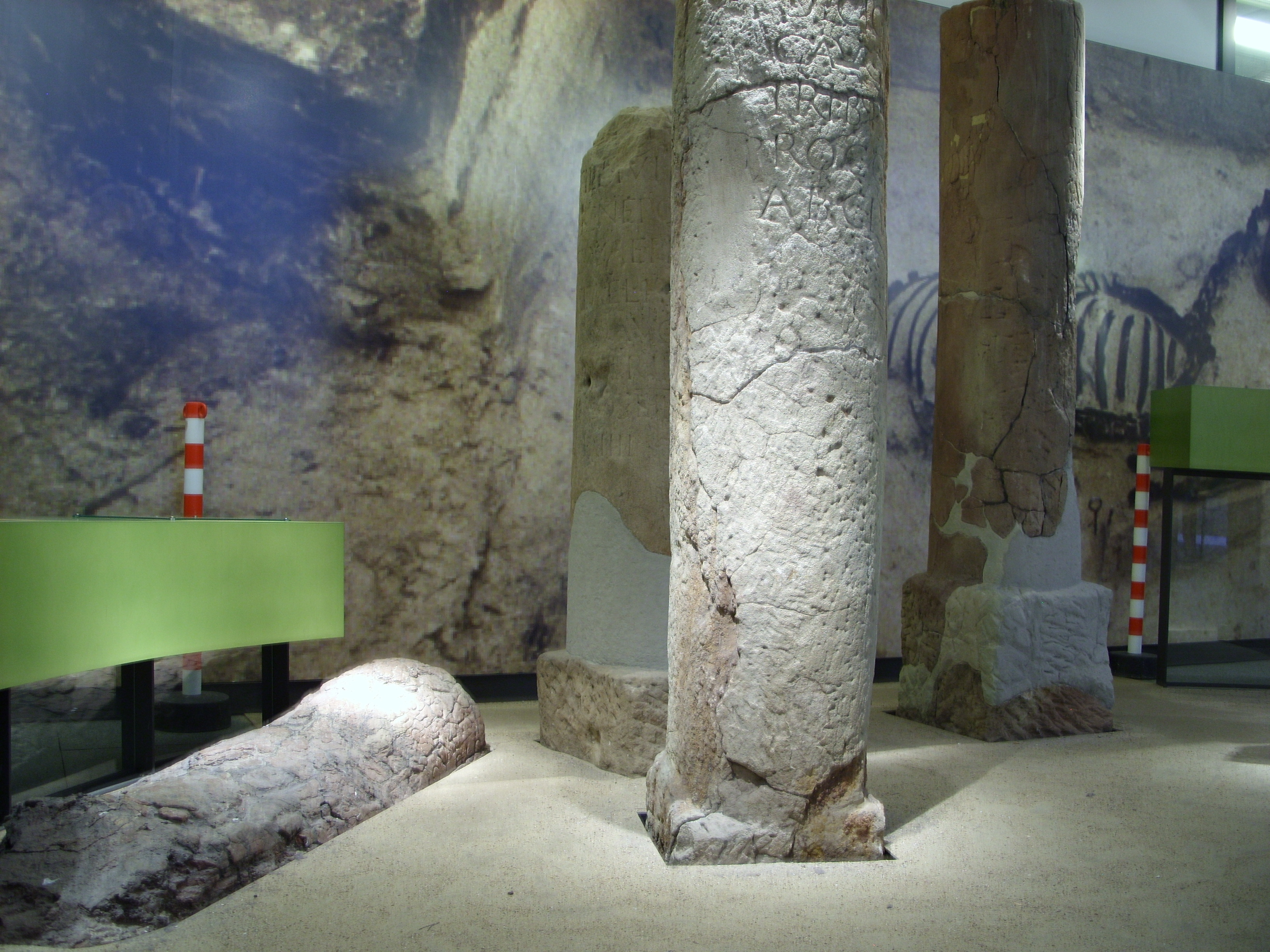 Four Roman Milestones found in Wateringse Veld, The Hague, The Netherlands 1997, presently on display in the Museon Museum The Hague, The Netherlands.